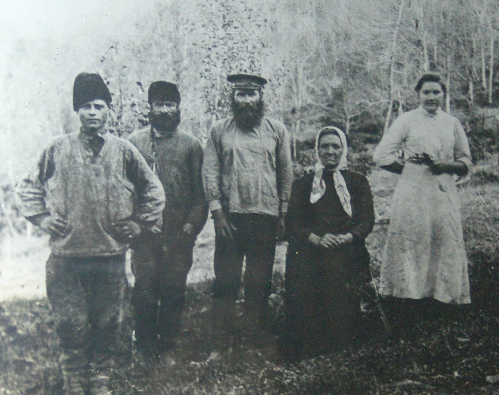 Koshman (the founder of Krasnodarky tea, middle) with his wife (to the right) and collaborators in Solokhaul, Sochi, Russia ca. 1910